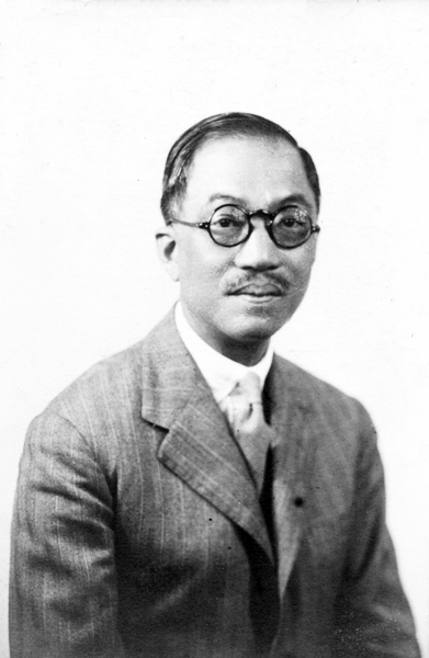 Wang Chonghui.